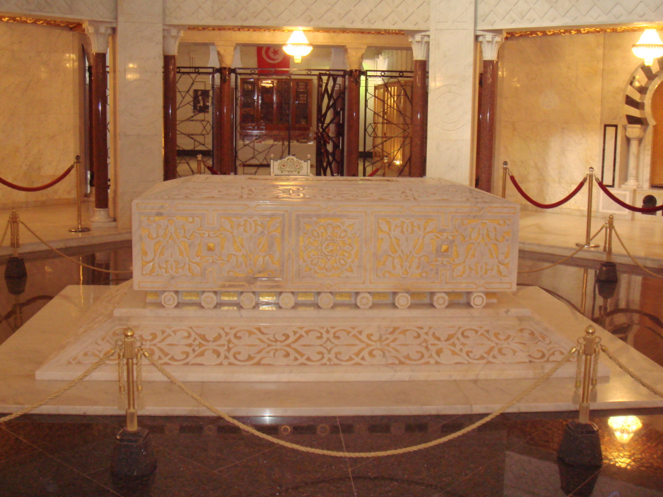 Habib Bourguiba mausoleum, Monastir, Tunisia